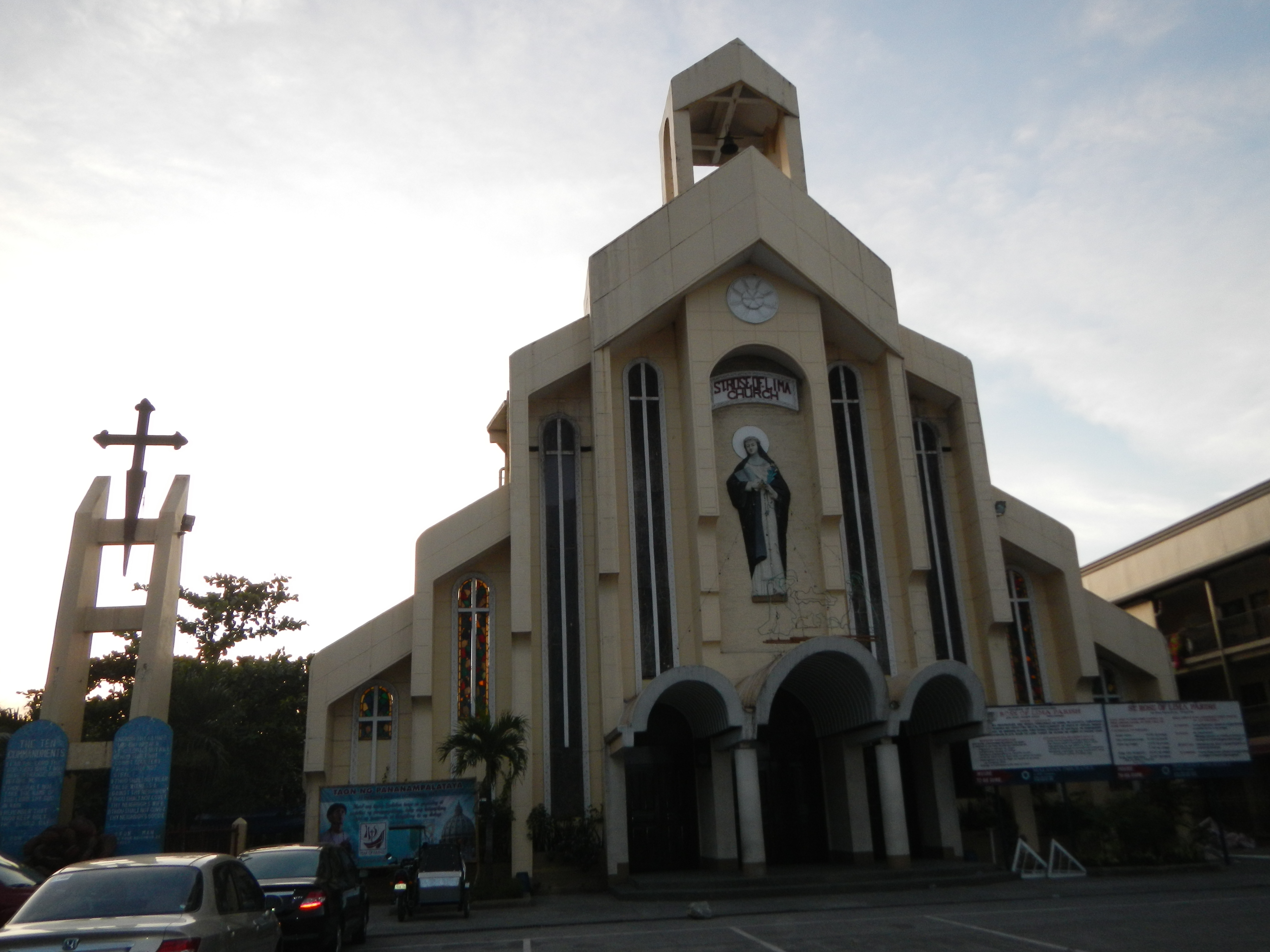 1879 St. Rose of Lima Parish Church, Sta Rosa, Nueva Ecija - Vicariate of St. Rose of Lima, Vicar Forane: Fr. Rommel B. Javaluyas Sta. Rosa (F-1879), 3101 Nueva Ecija; Tel./Fax: 311-1865 Titular: St. Rose of Lima, Aug 23 Parish Priest: Fr. Robert I. dela Cruz[1][2]Rev. Fr. Jacinto L. Beltran (Ecology) Feast August 23 Santa Rosa, Nueva Ecija[3]